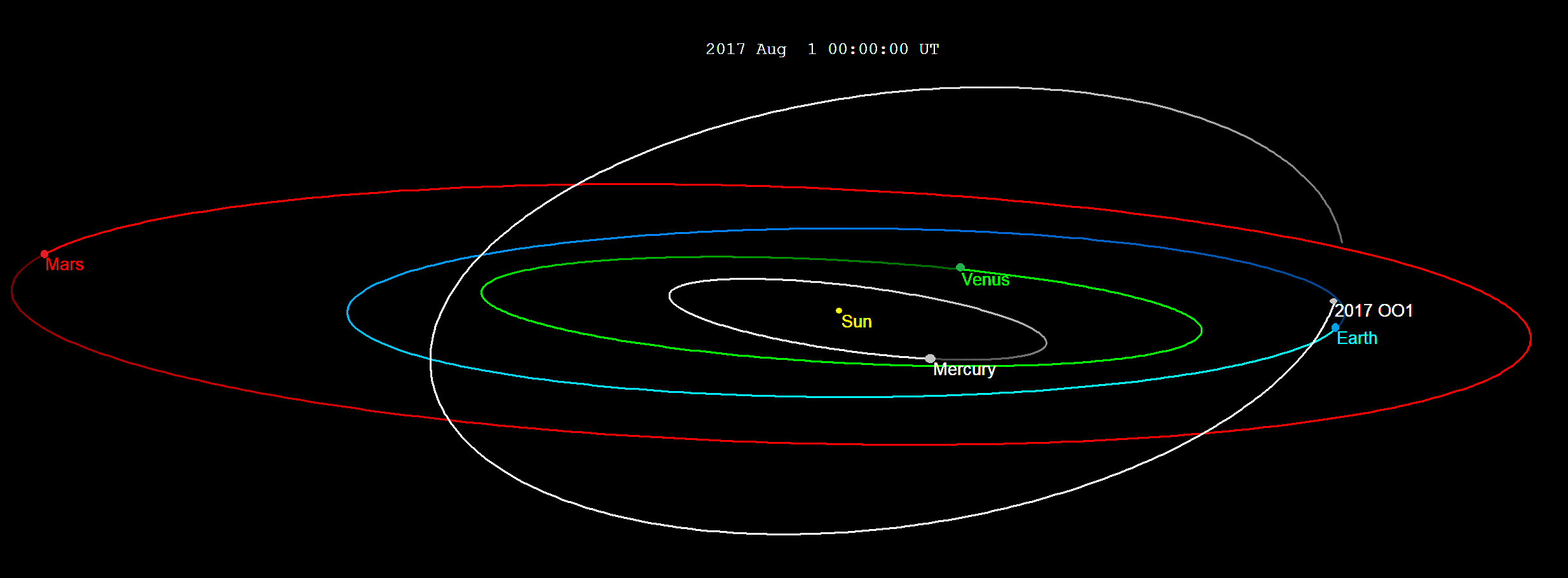 en:2017 OO1 orbit, inclined view